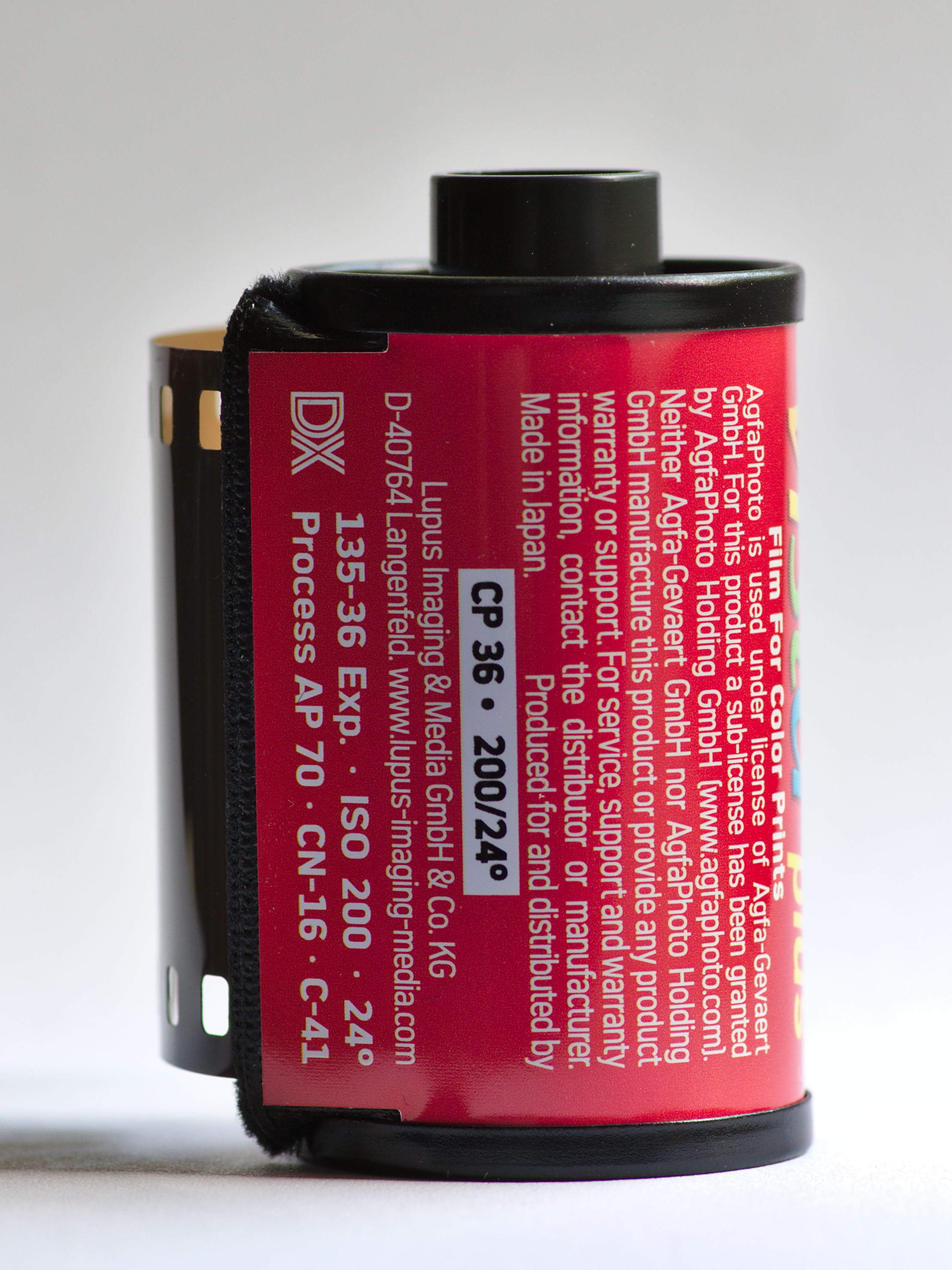 Agfaphoto Vista plus 200 speed C-41 consumer film in 135 format. This is new stock from 2017 (expiring 2018) and not the same as older Films sold under similar names. It is not being produced by Agfa, but by an unnamed company in Japan and distributed under the Agfa brand under license by Lupus Imaging. Some assume it is actually re-badged Fuji C200. The DX cartridge barcode of this specimen is 806254.